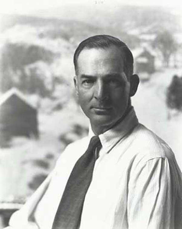 Photograph of American artist Harry Leith-Ross (1886 - 1973).